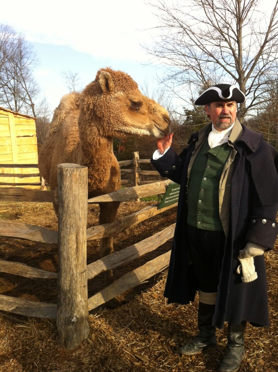 "Muhamad the Christmas Camel" recreates Washington's 1787 hiring of a camel for 18 shillings to entertain his Christmas guests with an example of the mount that brought the Three Wise Men to Bethlehem to visit the newborn baby Jesus.[1]